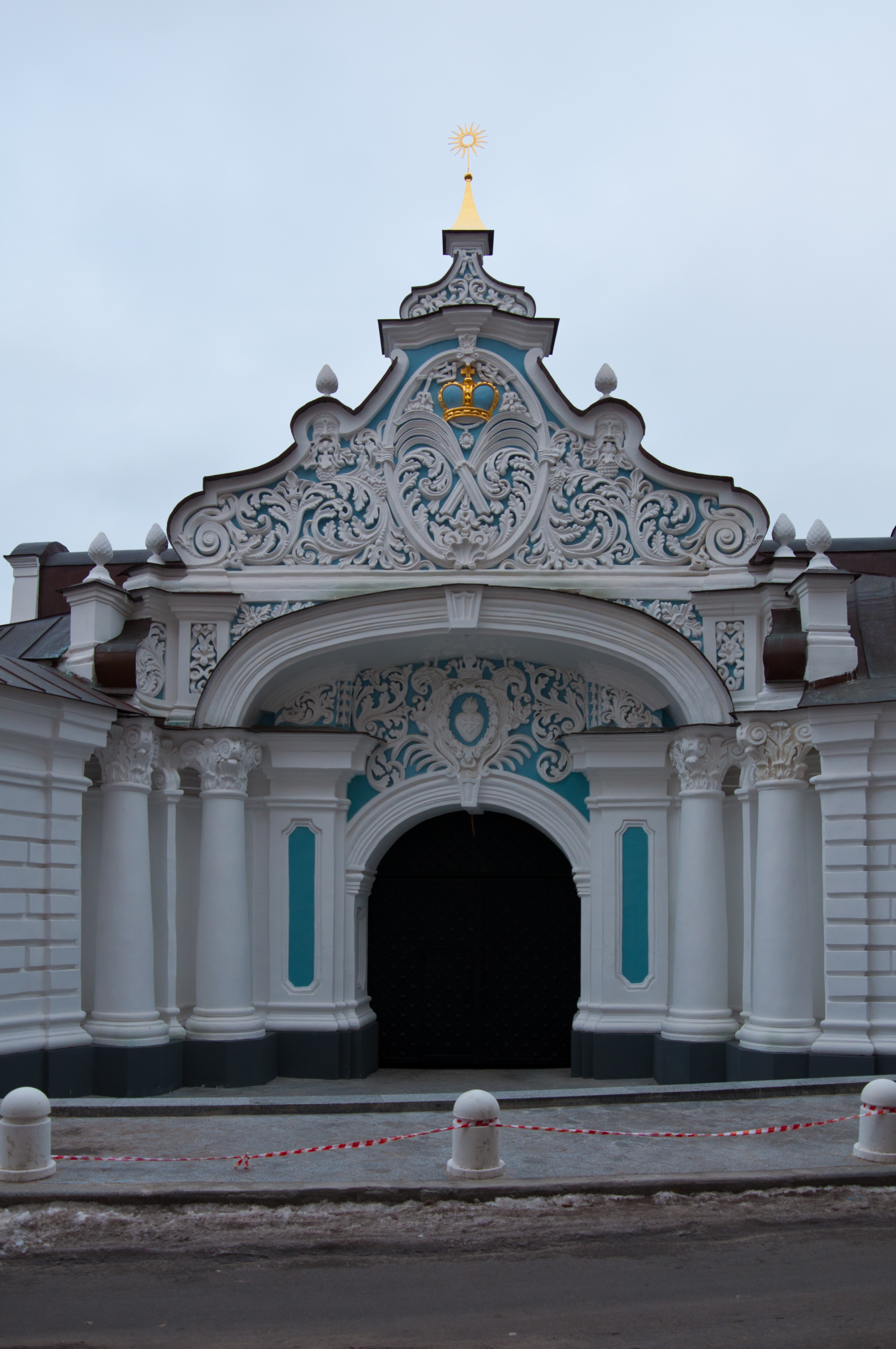 Zaborovsky Gate after restoration